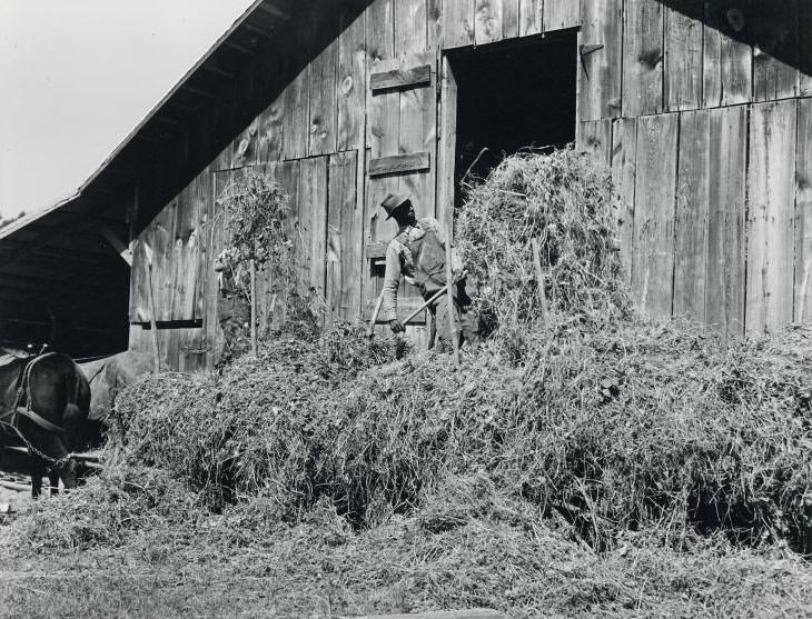 View of African-American farm worker loading hay into barn on tobacco farm of A. B. Douglas, Blairs, Pittsylvania County, Virginia. United States Farm Security Administration, Library of Congress, Washington, D. C.